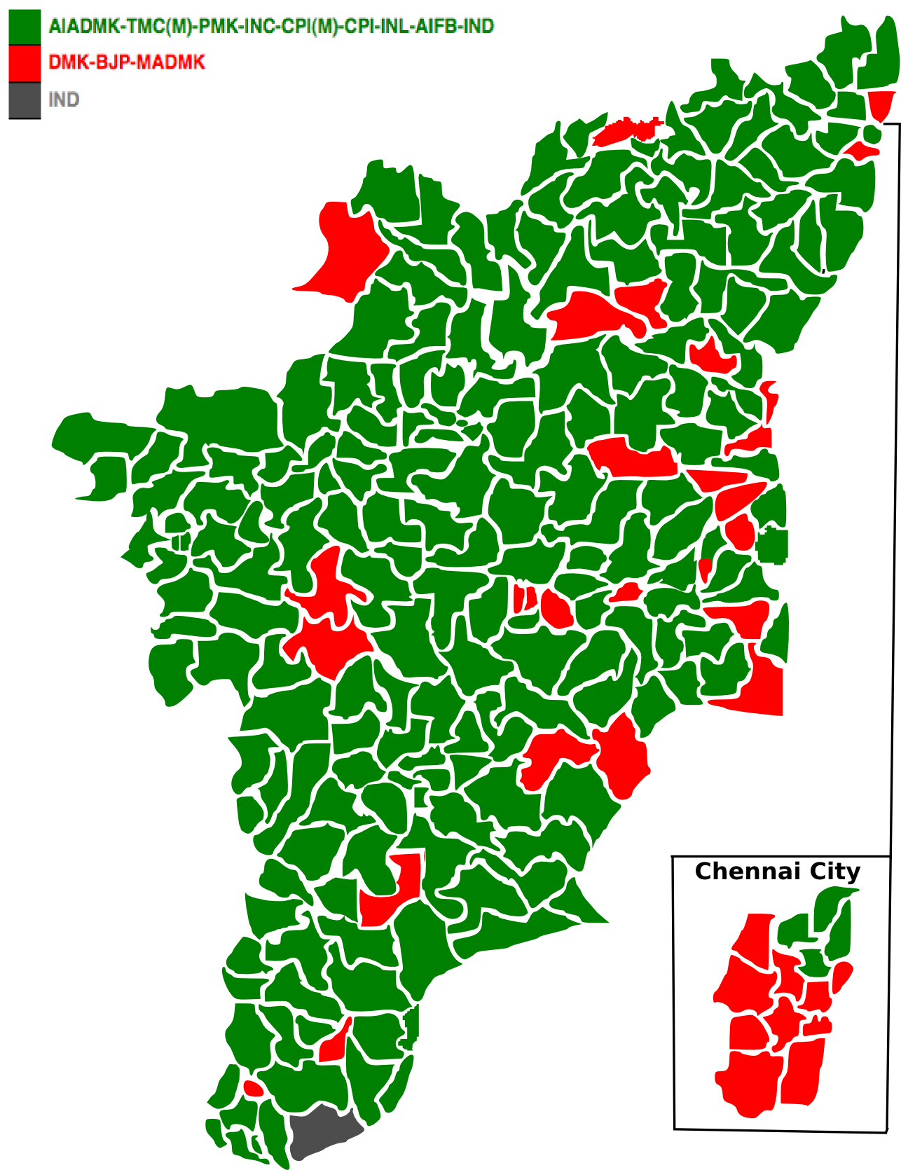 made election map using borders from ECI website using Inkscape.